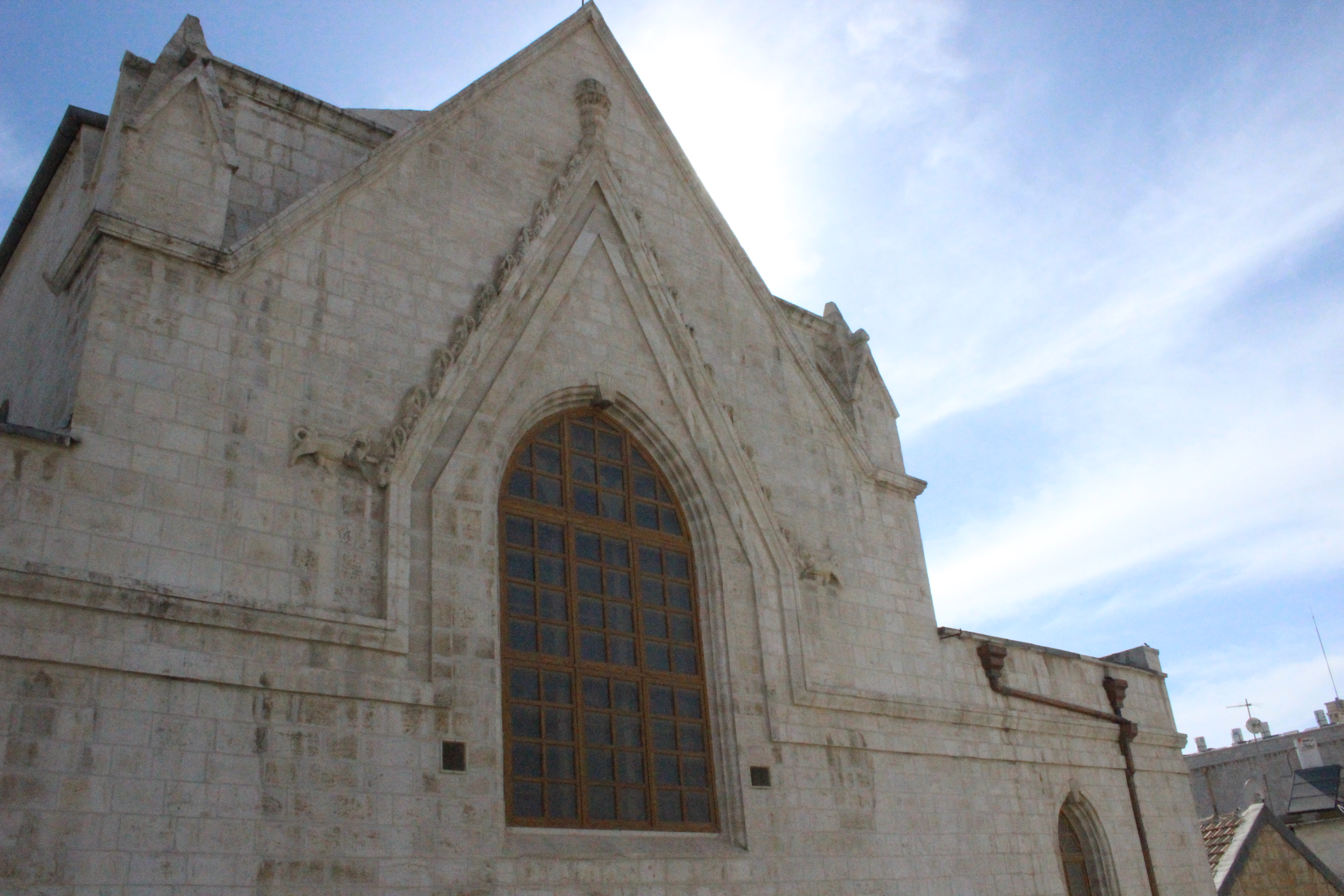 Jerusalem is also known as "Ariel" (Lion of God) and belongs to the tribe of Judah that his symbol is the lion. The lion is a constant symbol in Jerusalem. In photography, side view of the church of the Patriarch in the old city. Photographic Collection Jerusalem Lions.